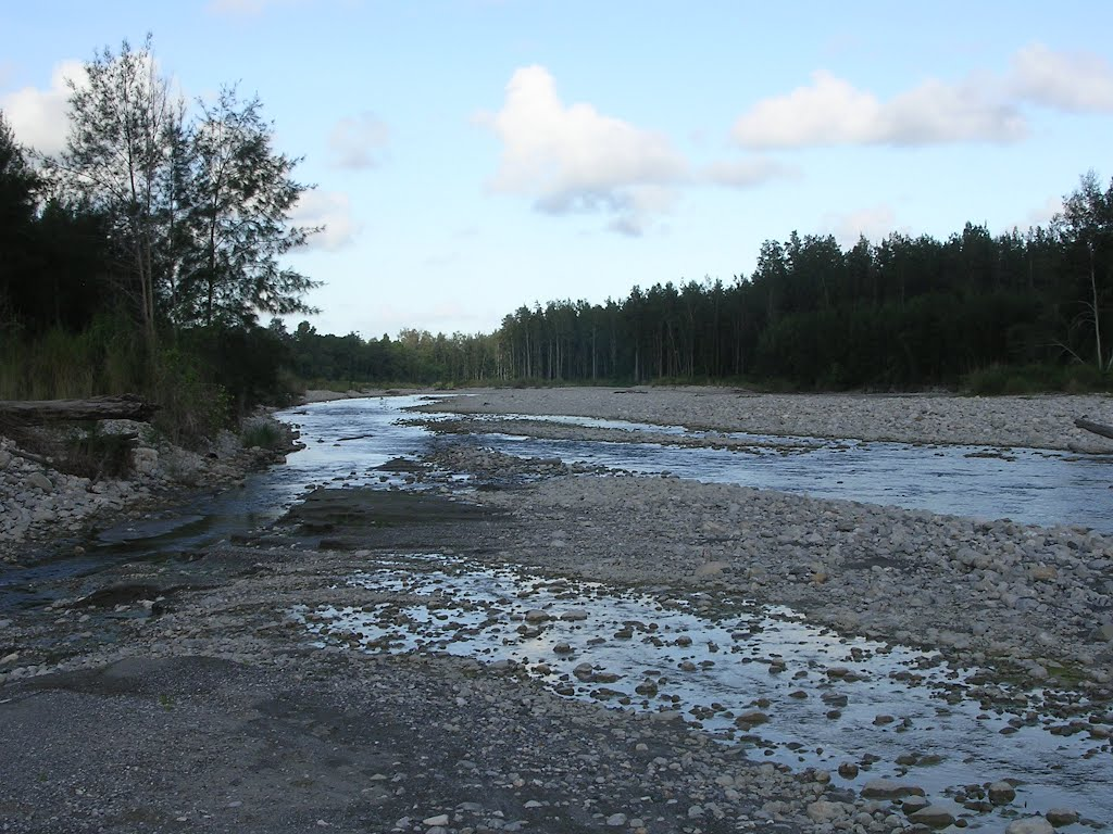 Tall Casuarina forest along the Sáhen River. Border between Fatuberlio/Manufahi and Barique/Manatuto.